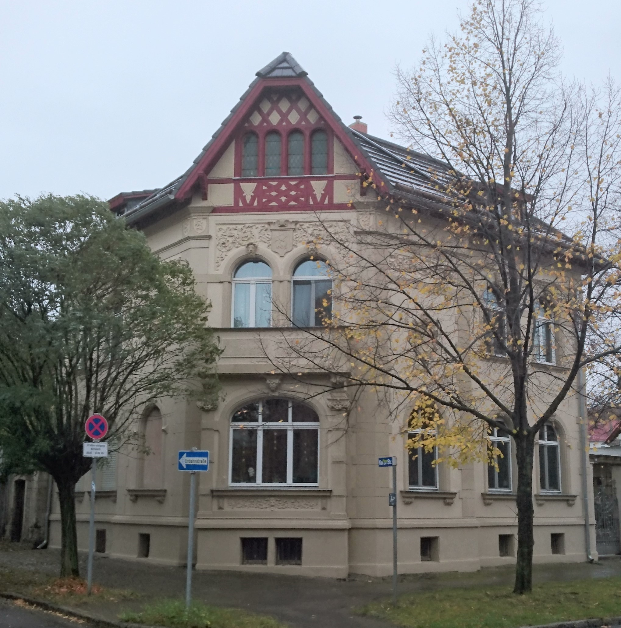 Haus Klopstockeg 42 in Quedlinburg